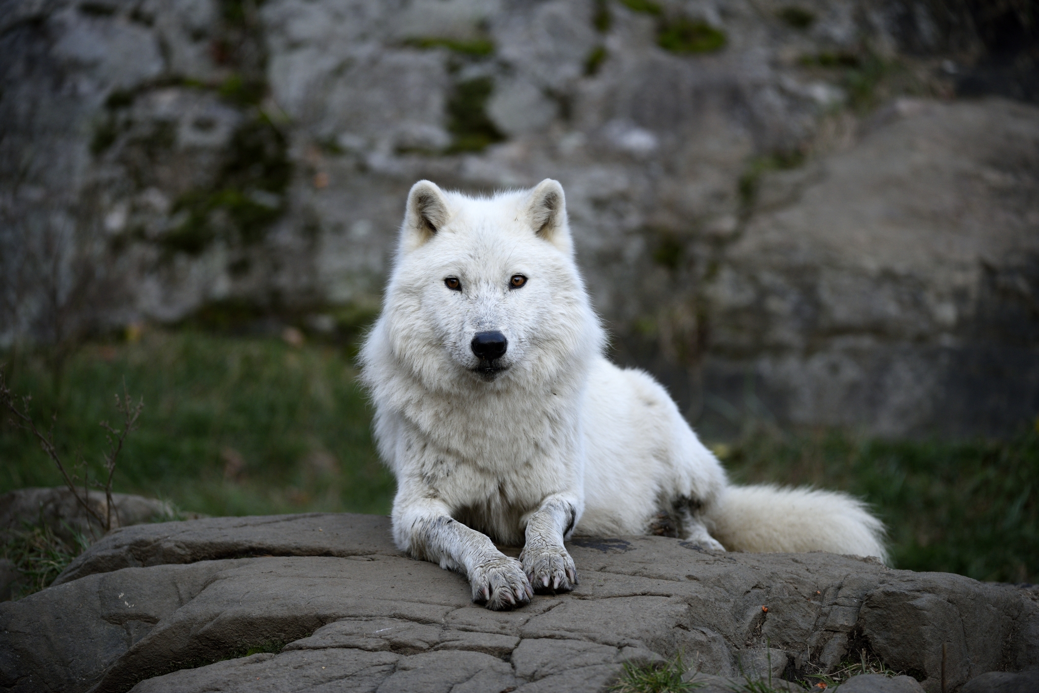 I photographed this arctic wolf trying to rest